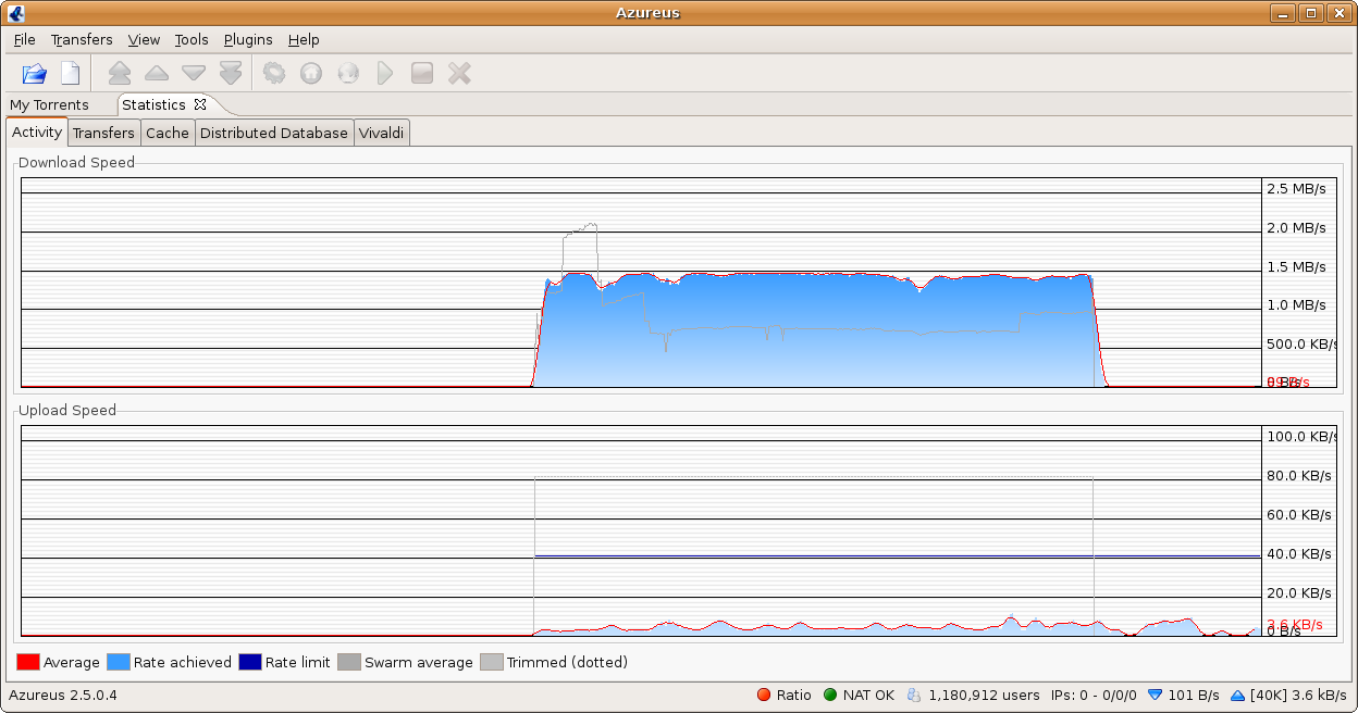 Screenshot of the Statistics in Azureus.